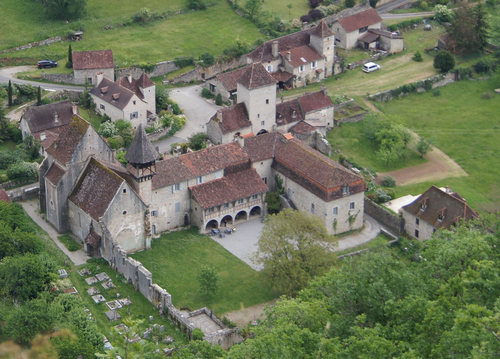 Priory seen from the top of the cliff in Espagnac-Sainte-Eulalie, Lot department, France.